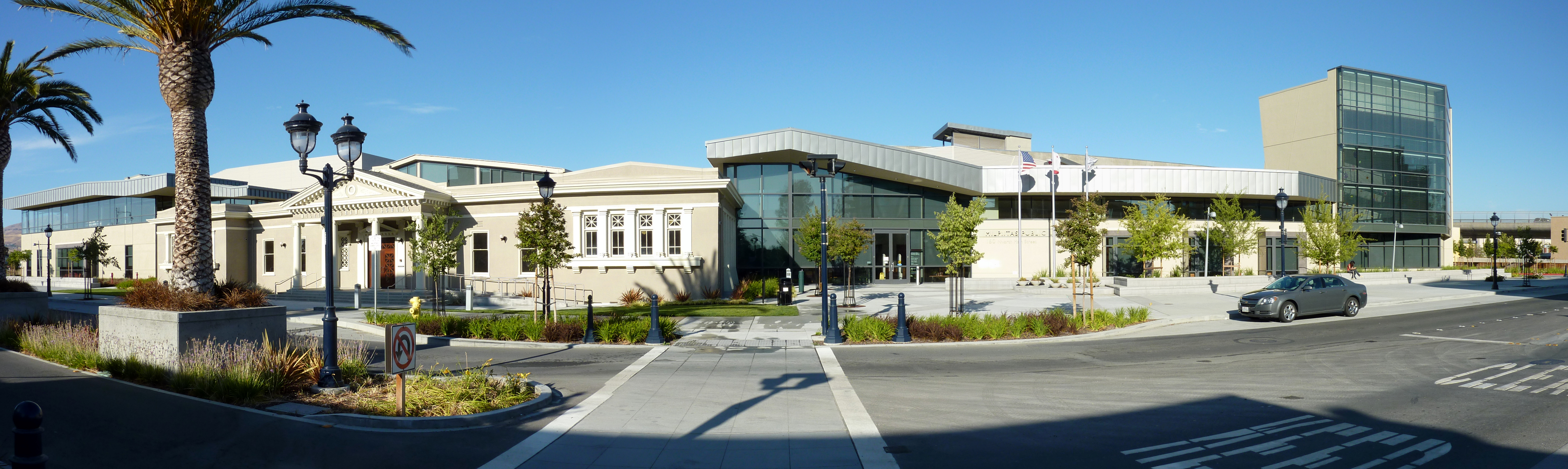 Milpitas Library, which works in the historic Milpitas Grammar School (built 1915). Milpitas, California, USA.